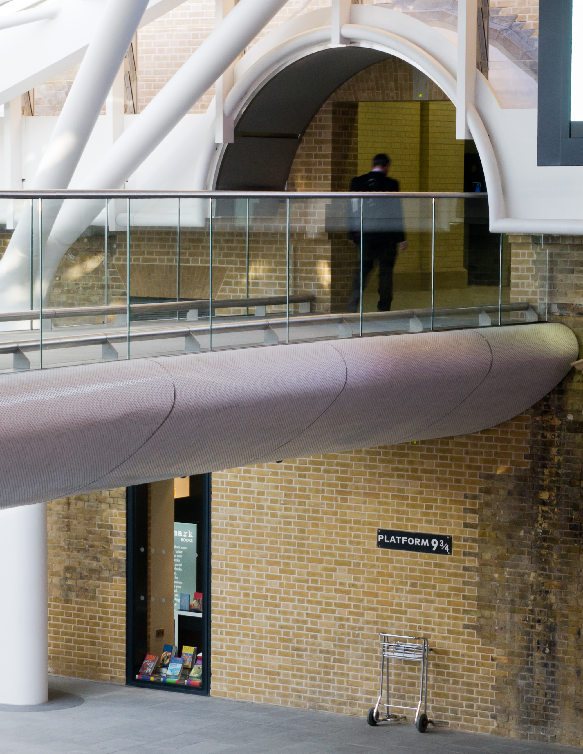 Platform 9¾ at London King's Cross railway station. A fictional platform from the Harry Potter books, the popularity of which led to the installation of a plaque depicting its supposed location along with a luggage trolley half-way into the wall. This popular spot for tourists and fans has had various locations around the station, and in 2012 was moved to the newly opened western departures concourse. It is situated close to platforms 9 and 10, below the walkway leading to the main building. The adjacent book store has the Harry Potter books on display in its window.